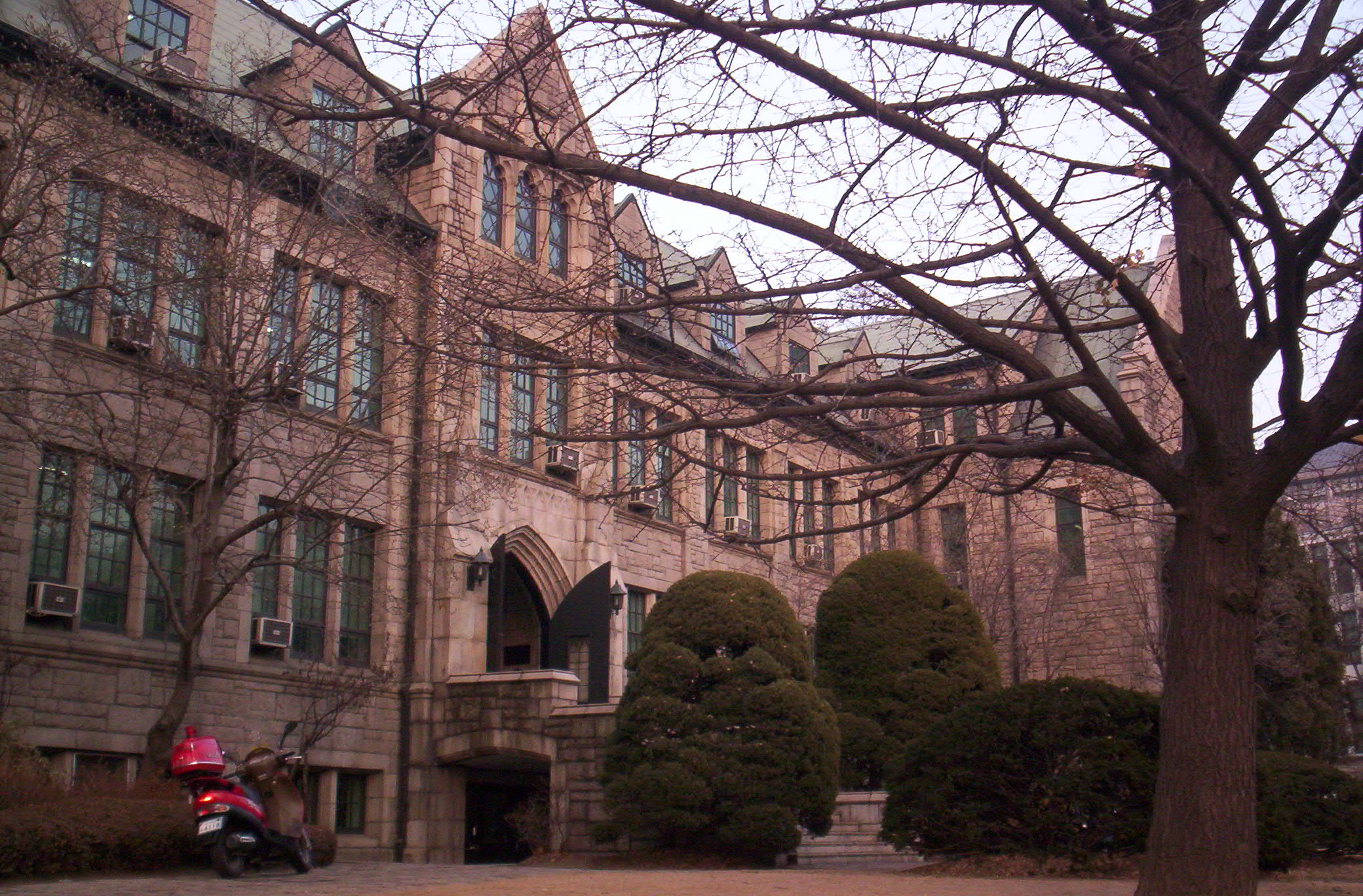 Ewha Womans University